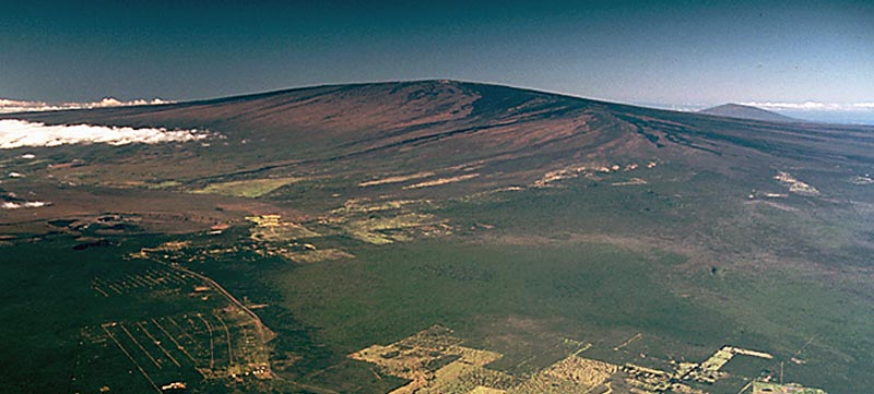 Mauna Loa Volcano towers nearly 3,000 m above the much smaller Kilauea Volcano (caldera in left center). Hualalai Volcano is in upper right. In recent years Mauna Loa has not erupted with the frequency of Kilauea, but its 33 historical eruptions have, on average, generated much larger volumes of lava on a daily basis -- more than 10 times the lava output from Kilauea's current Pu`u`O`o eruption. Lava flows on Mauna Loa tend to travel much longer distances in a shorter period of time than those on Kilauea. Thus, warnings and notifications in the first few hours of an eruption are critical for public safety.